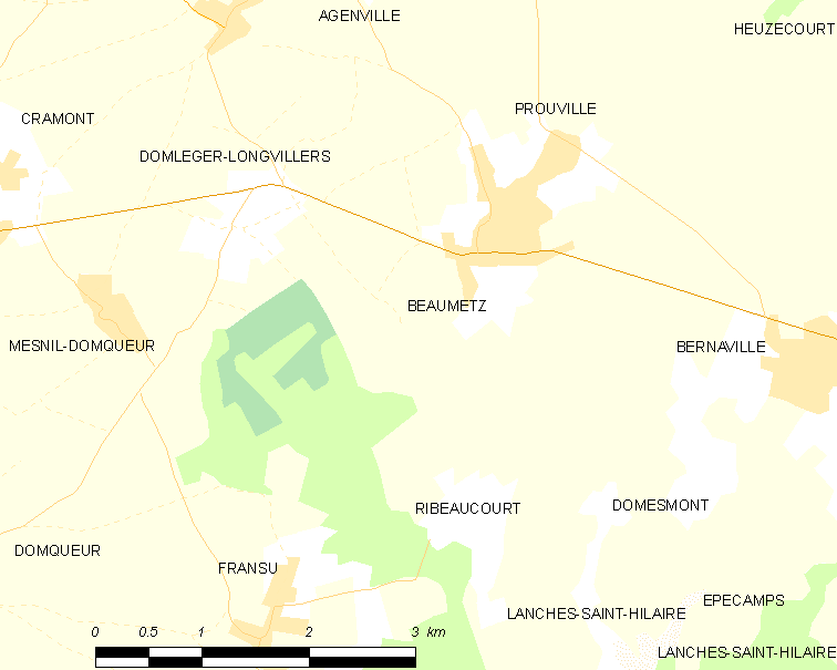 Map of French municipality Beaumetz